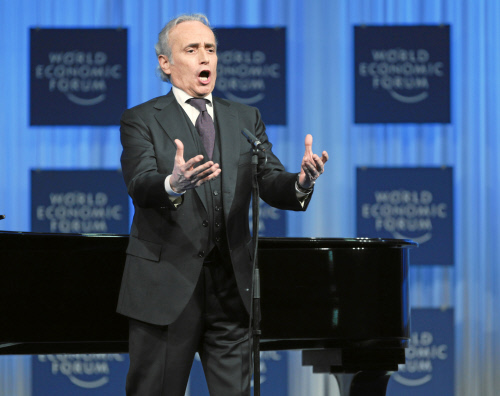 DAVOS/SWITZERLAND, 26JAN11 - Josep Carreras, Opera Singer, Jose Carreras International Leukaemia Foundation, Spain sings during the 'Crystal Award Ceremony' at the Annual Meeting 2011 of the World Economic Forum in Davos, Switzerland, January 26, 2011.. . Copyright by World Economic Forum. by Sebastian Derungs